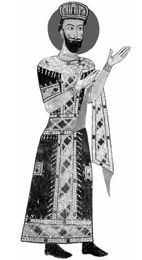 Alexander II of Imereti